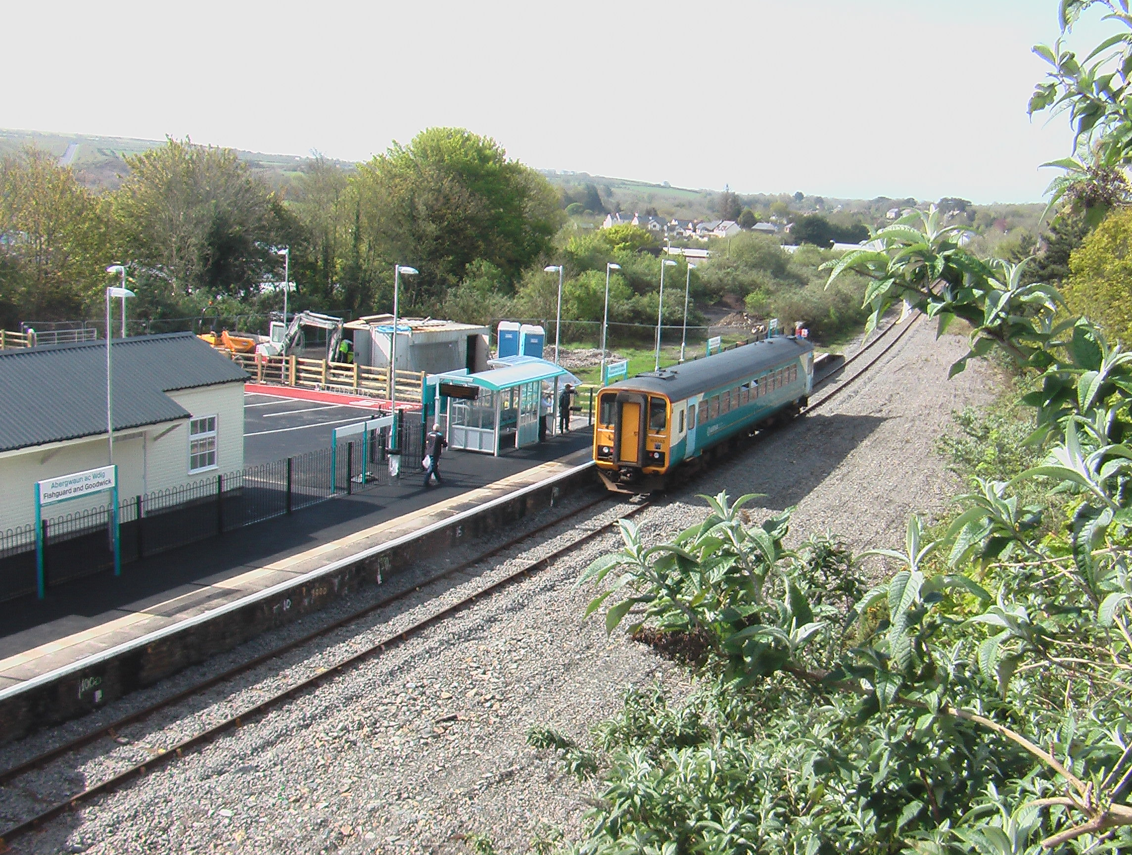 Class 153 'Super Sprinter' unit, 153353 calls at Fishguard & Goodwick station on Monday 14th May 2012. This unit was working the 09:56 service from Fishguard Harbour, and this was this first time this service called at Fishguard & Goodwick since reopenning (the 4th service eastbound from Fishguard Harbour to do so).